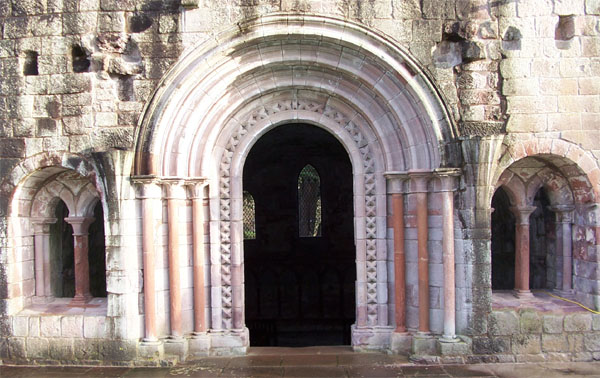 Entrance to the chapter house of Dryburgh Abbey, Berwickshire, Scotland.